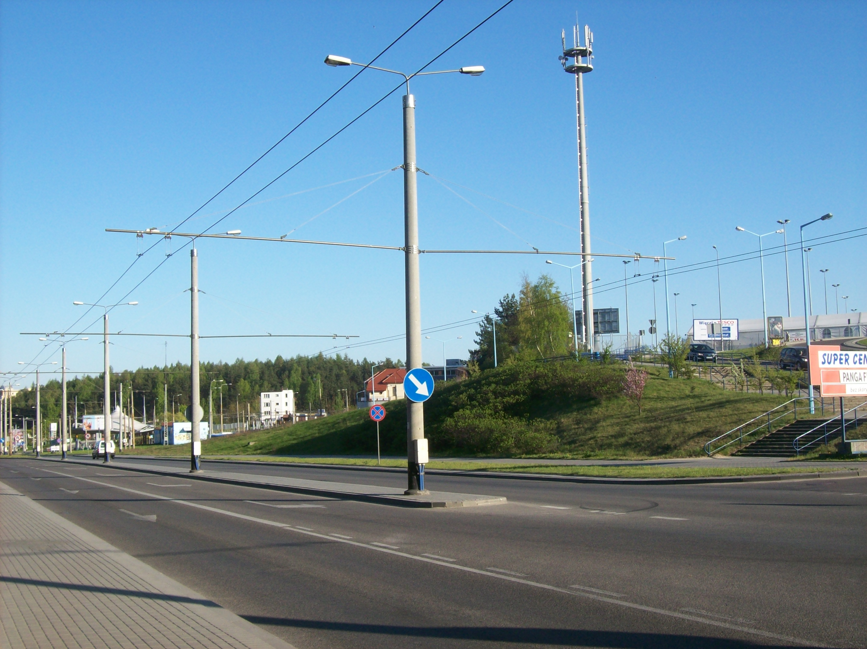 Overhead lines of trolleybus in Gdynia.